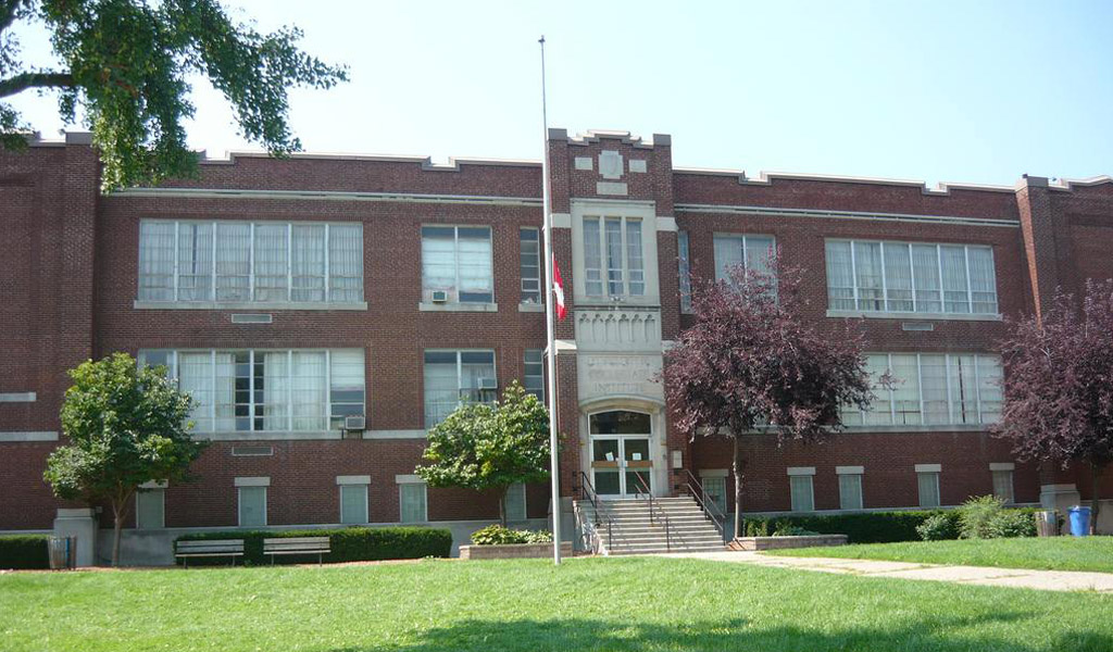 J.L. Forster Secondary School, a high school in western Windsor, Ontario